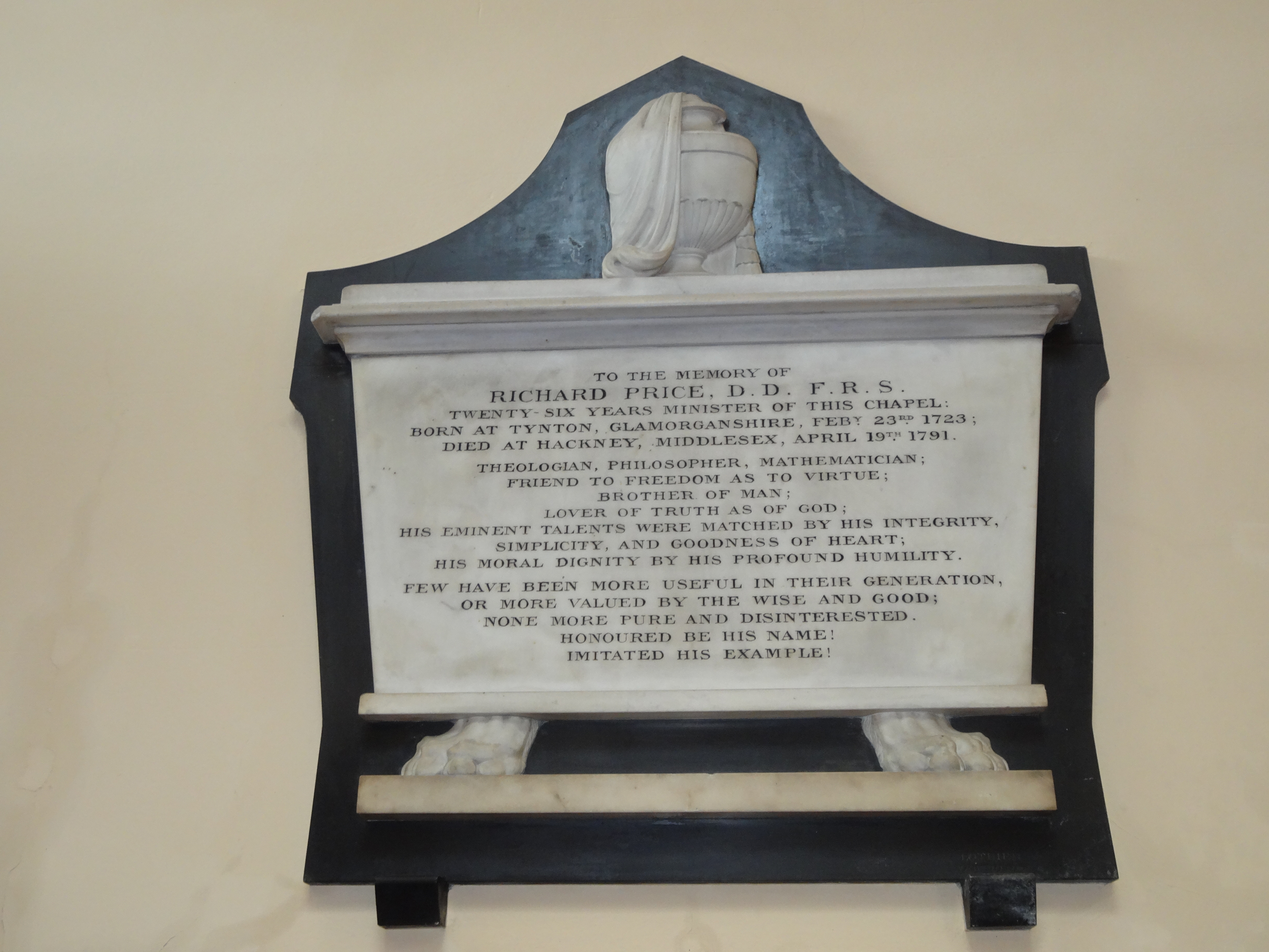 Newington Green Unitarian Church (interior)